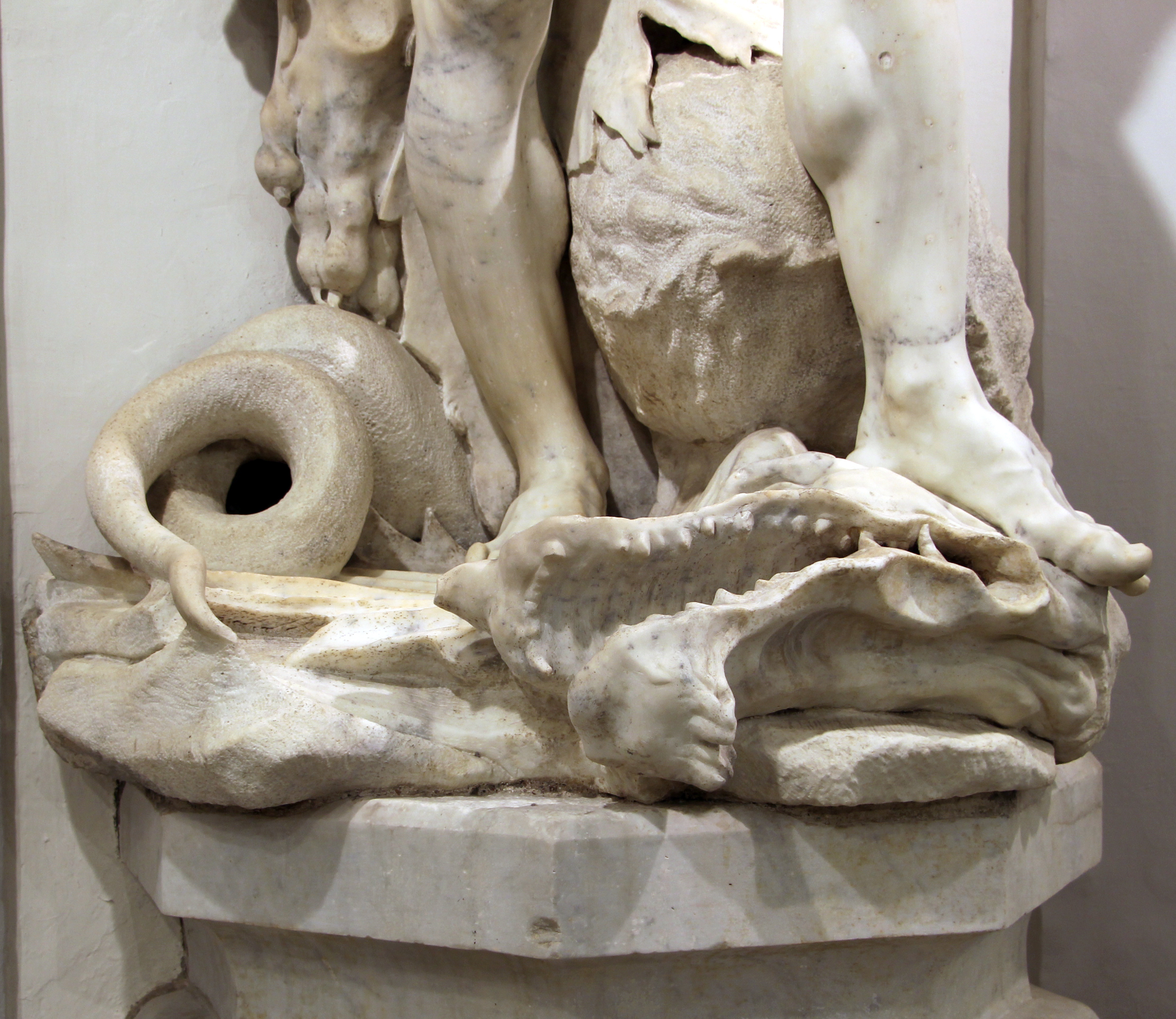 Fountain of Heracles by Filippo Parodi